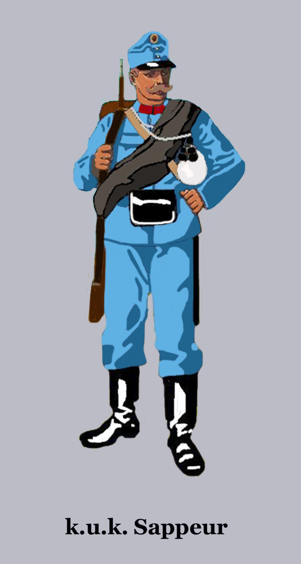 Sapper of the k.u.k. Austria-Hungarian Army in Battledress